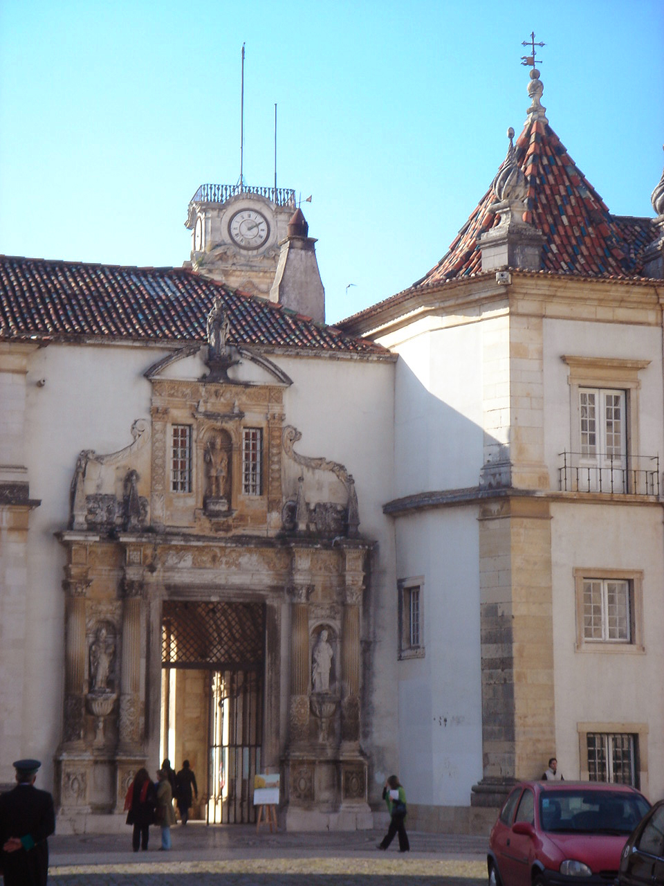 Old entrance (Porta Férrea) of the University of Coimbra, Portugal